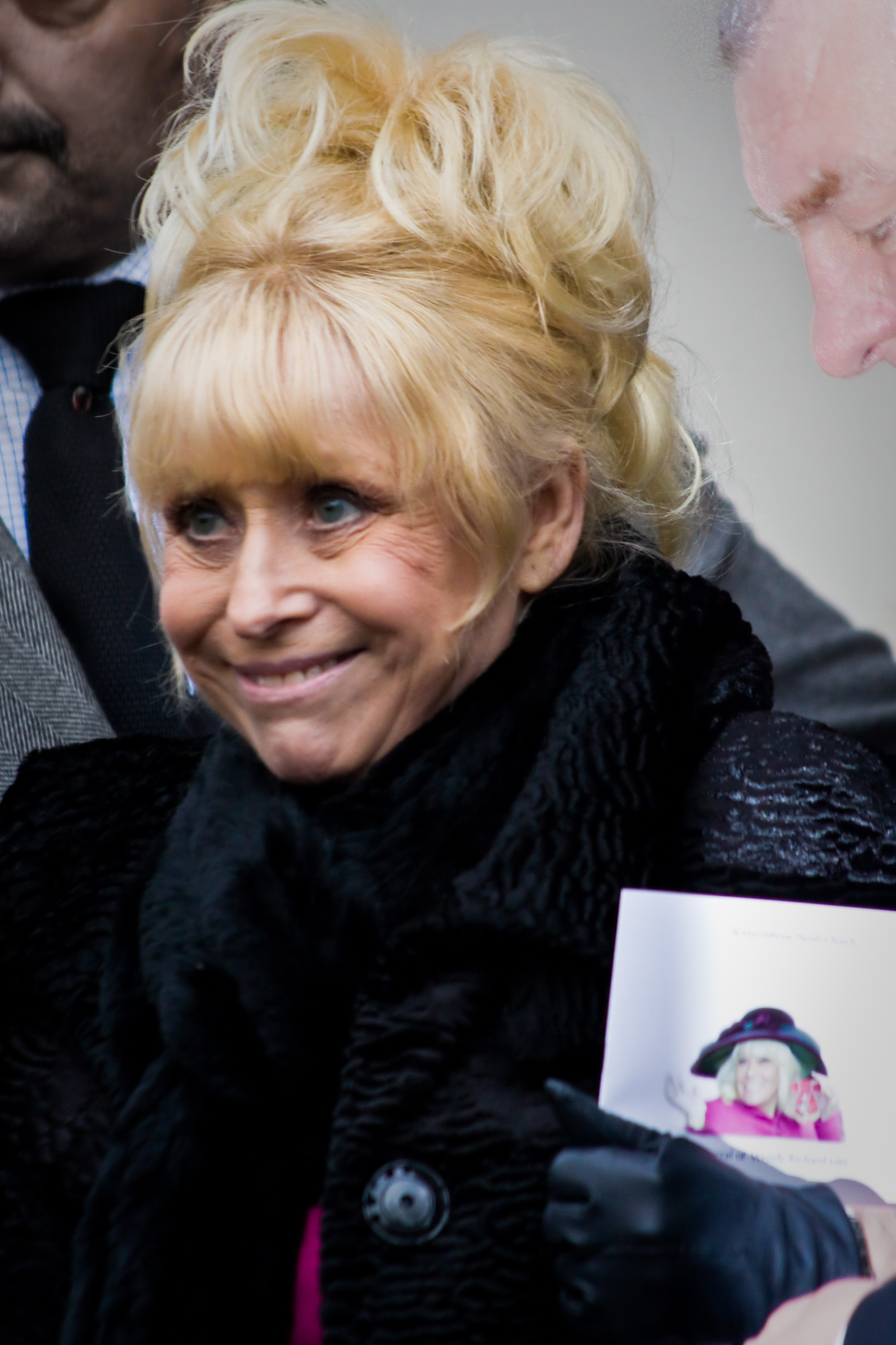 Barbara Windsor at the funeral service for actress Wendy Richard at St Marylebone Parish Church.